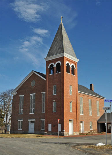 NEW JERUSALEM LUTHERAN CHURCH BUILT IN 1869 AND 1903